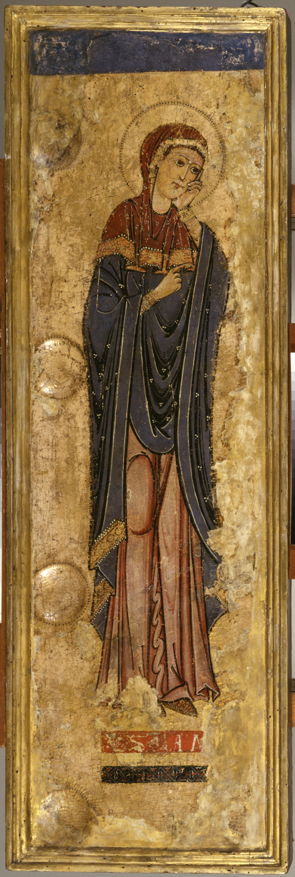 This beautiful panel, one of the oldest Italian paintings in America, is a fragment from the left side, or apron, of a large painted crucifix. With one hand touching her cheek in a tender expression of sorrow, the Virgin points to her left (towards to the now-missing central panel) with her other hand. Her gesture was originally directed towards Christ's wound, the source of her grief. The rippling drapery and elegant contours of the Virgin's body are derived from Byzantine icons. Created before painting on wooden panels was widely practiced, this is a rare example of an early Italian painting executed on parchment (prepared animal skin, generally used for manuscripts) applied to a wooden panel. This fact, together with the artist's remarkable control of line and expressive gesture, suggest that he also worked as a manuscript illuminator. For more information on this piece, please see Zeri catalogue number 1, pp. 3-4.